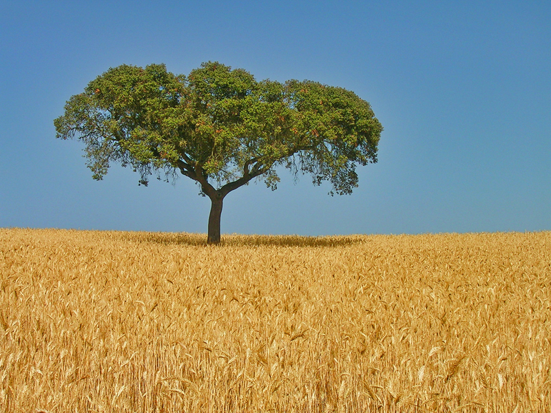 Oak on wheat field, a typical image of the Alentejo region, Portugal.